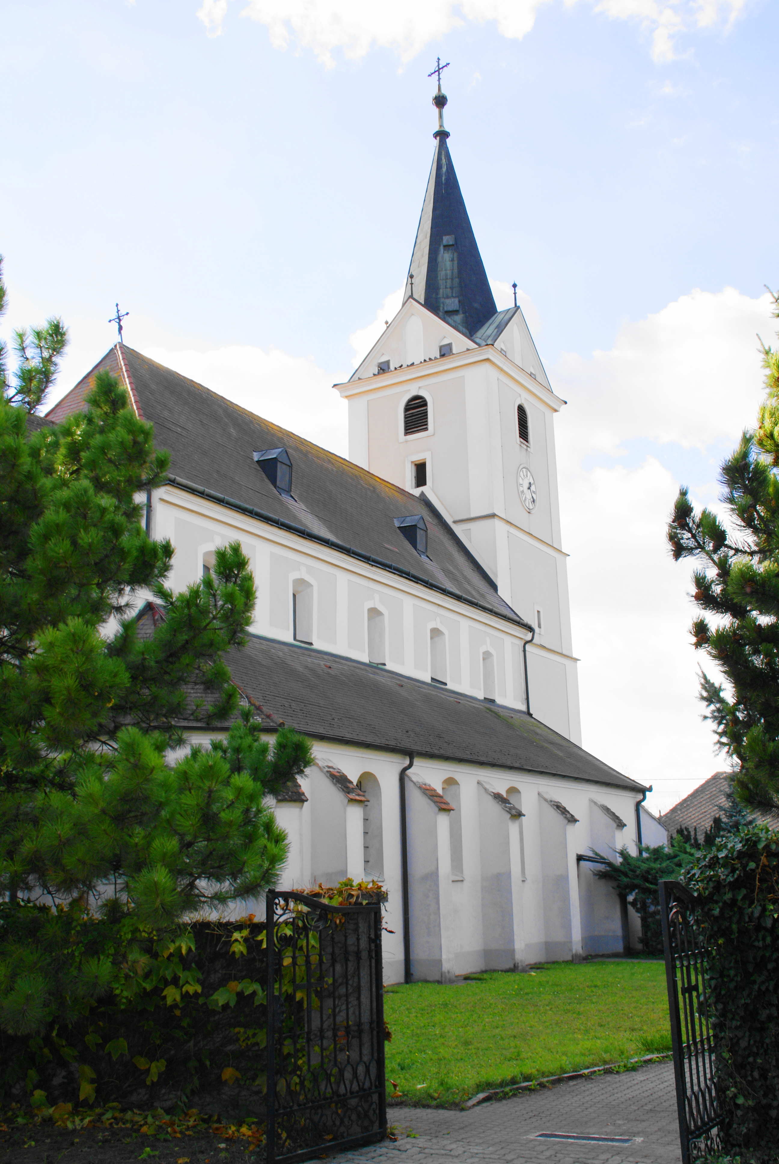 katholik church kleinhain, lower austria, gotik - ca. anno 1350